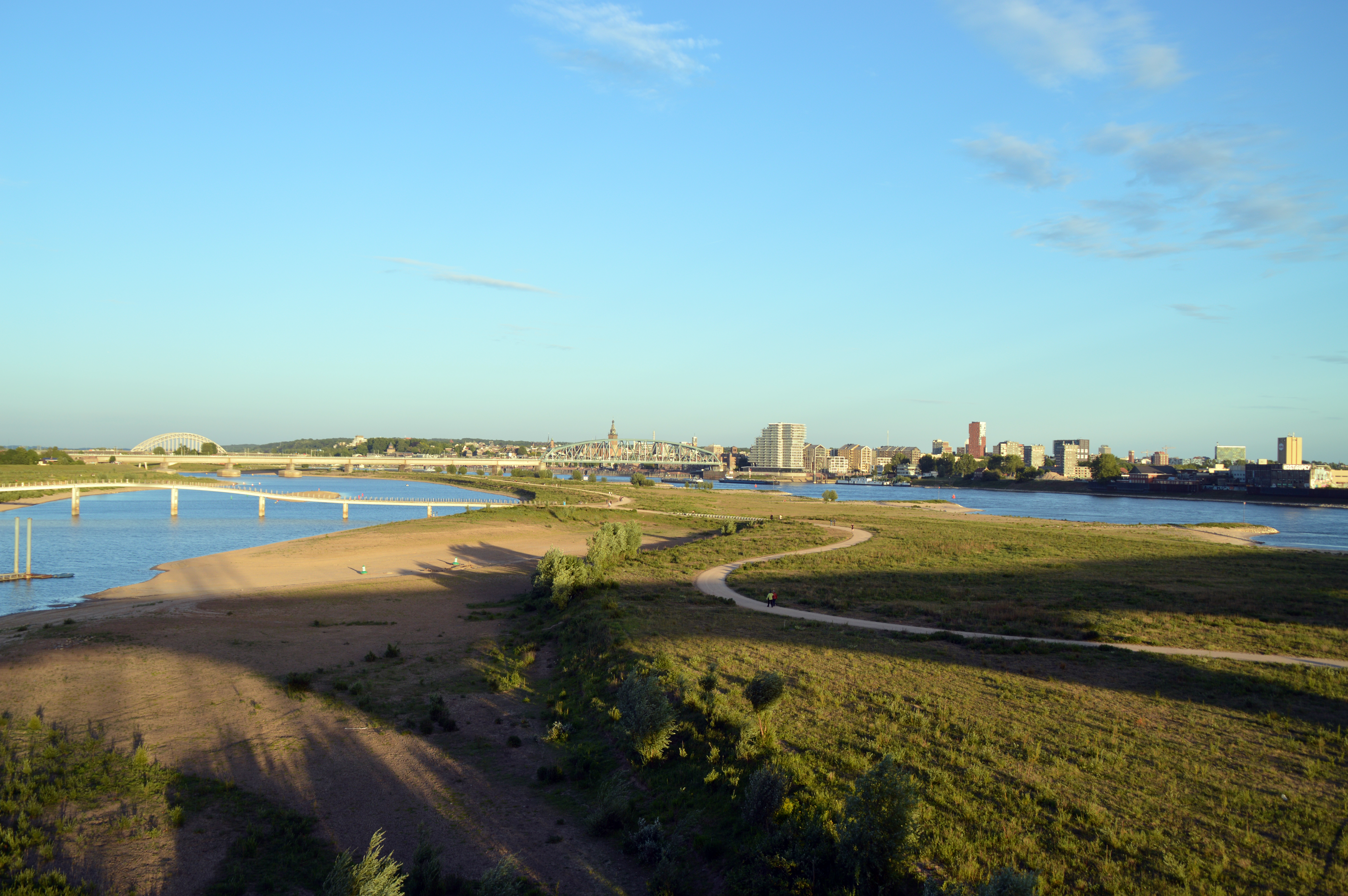 Skyline Nijmegen seen from City Bridge the Crossing